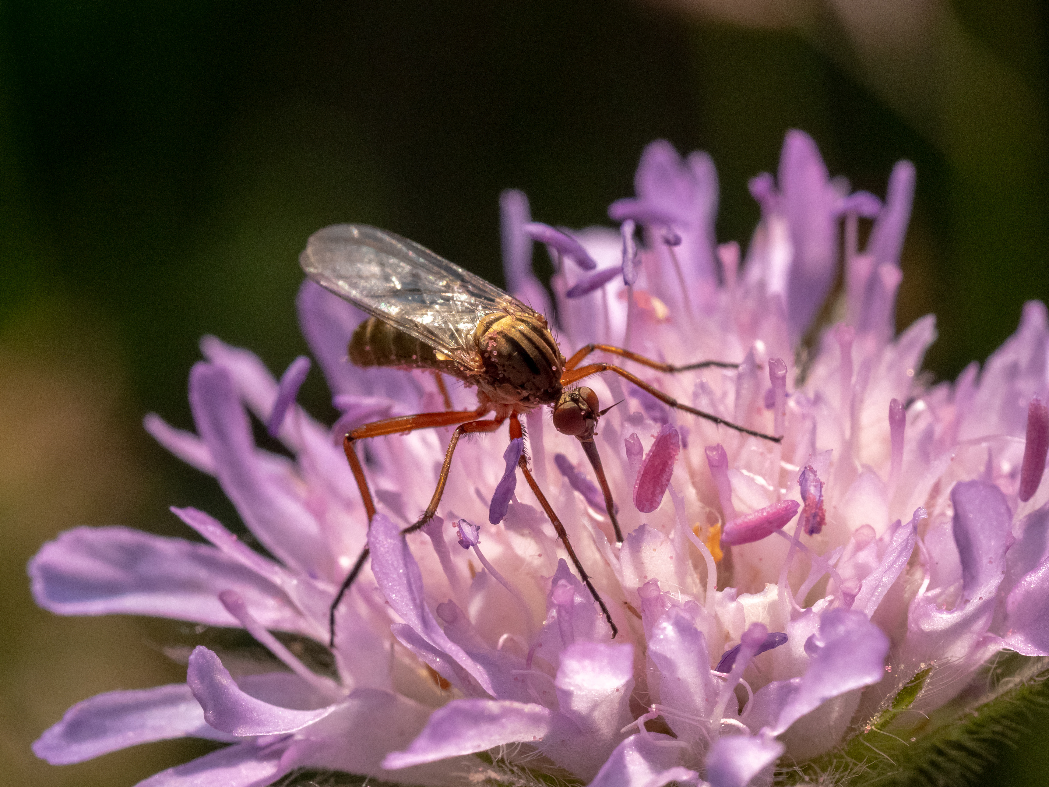 Rhamphomyia on a blossom